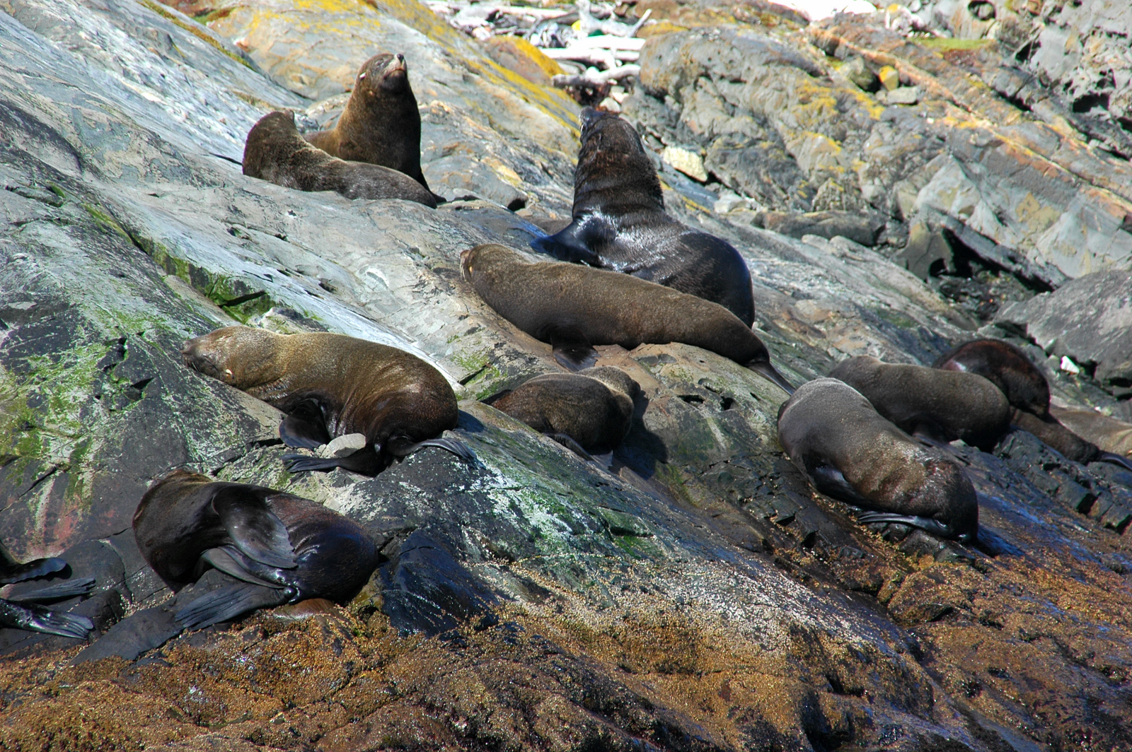 South American Fur Seals (Arctocephalus australis)